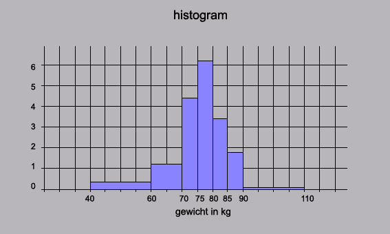 Corrected picture based on the file NYW-histogram01.jpg Wxample of histogram